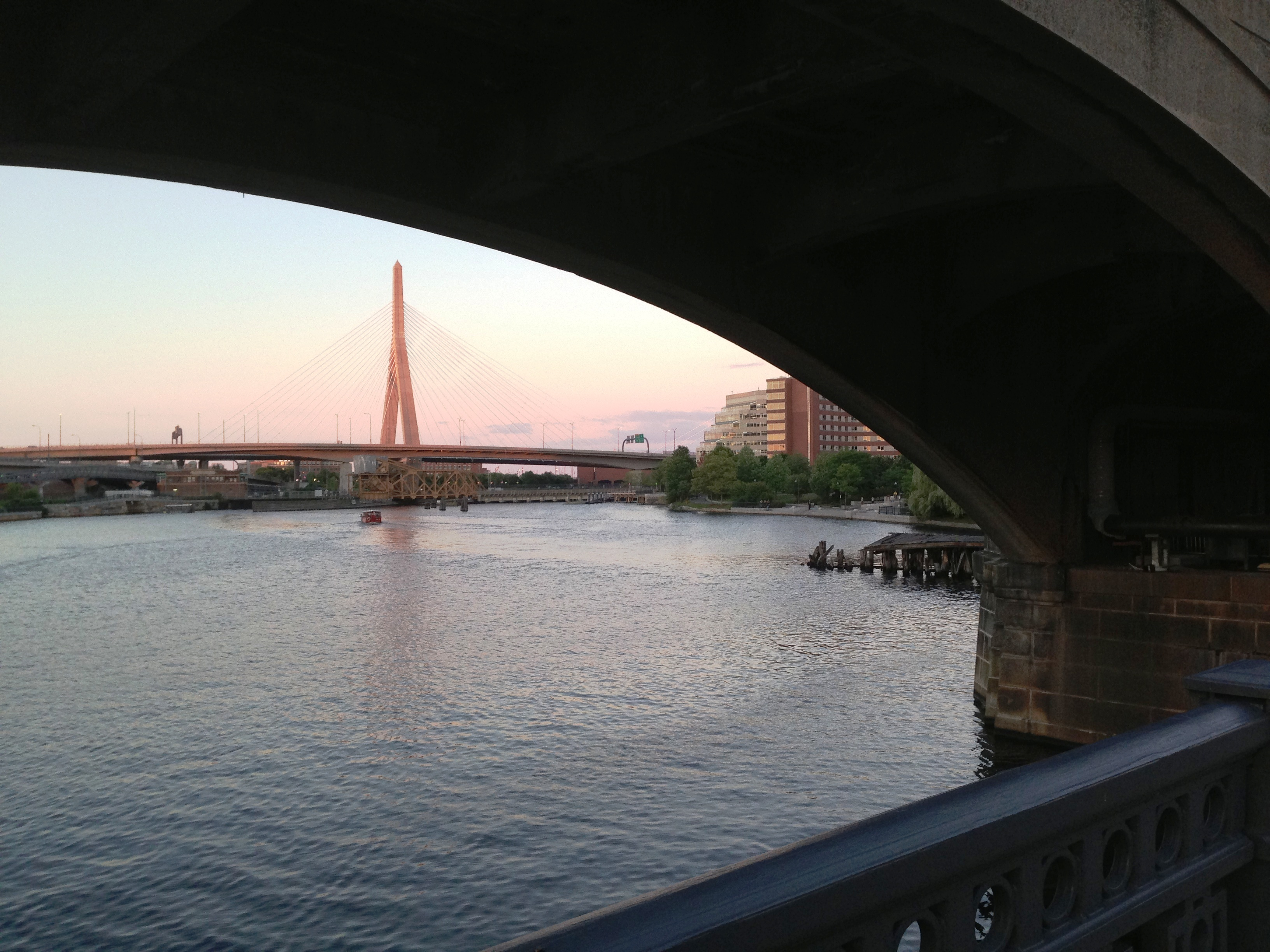 Five bridges over the Charles River are visible in this photograph. From nearest to farthest: Charles River Dam Bridge (railing visible lower right) Lechmere Viaduct (arch visible upper right) Charles River Commuter Rail Bridge (background center) Leonard P. Zakim Bunker Hill Memorial Bridge (background center) Charles River Dam (dam building visible just behind right side of Zakim bridge) Additionally, the Haymarket North Extension tunnel is unseen roughly beneath the Zakim bridge.